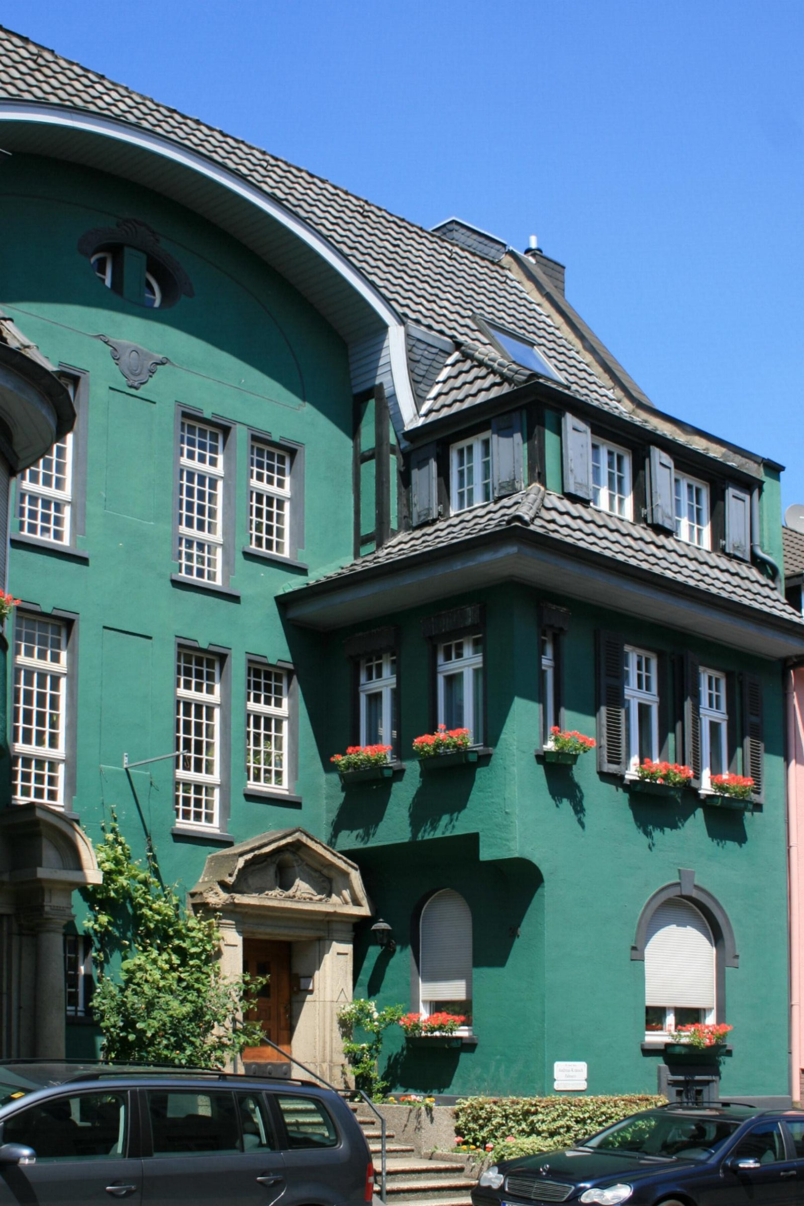 Cultural heritage monument No. P 009 in Mönchengladbach